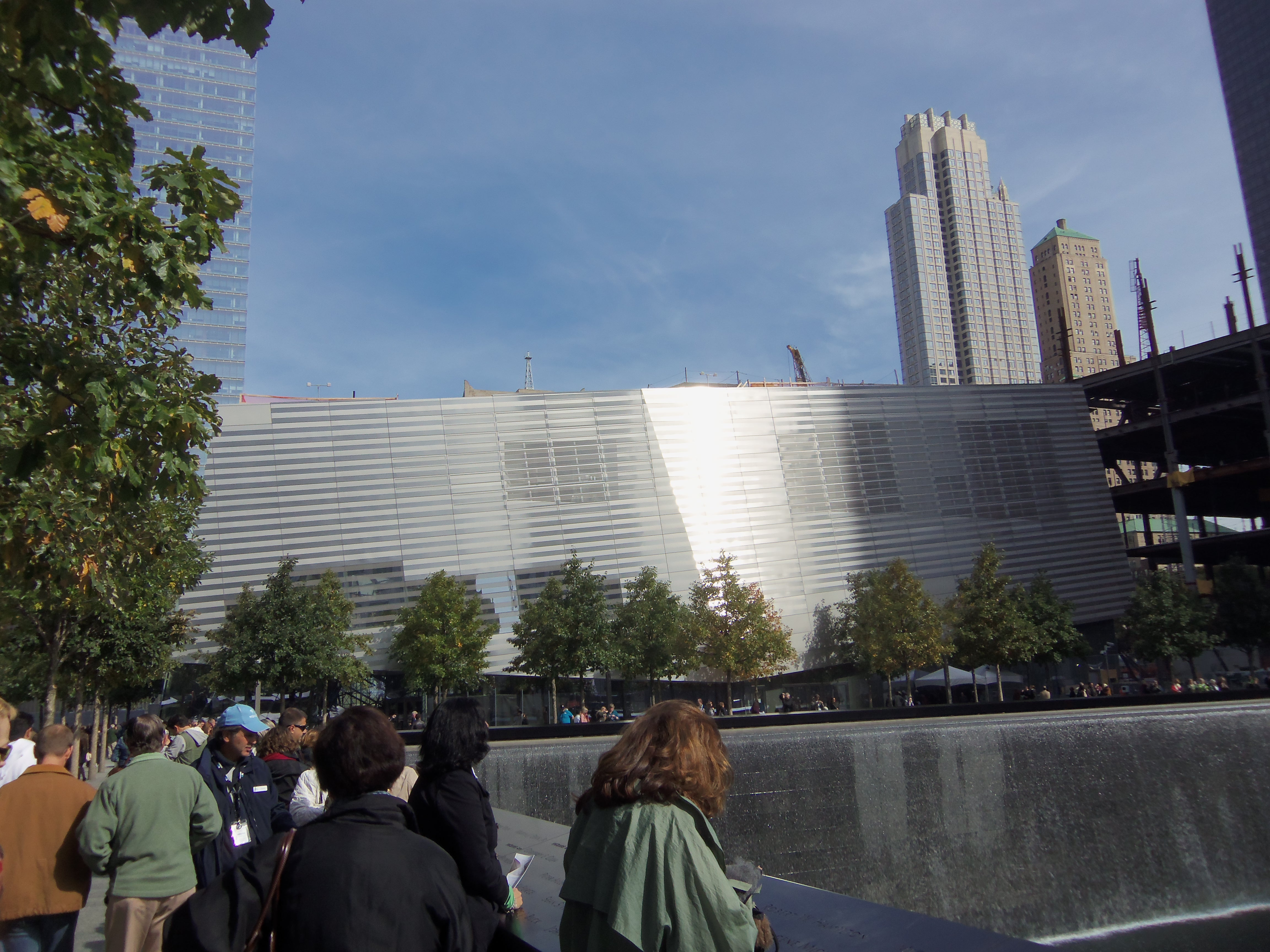 The National September 11 Museum